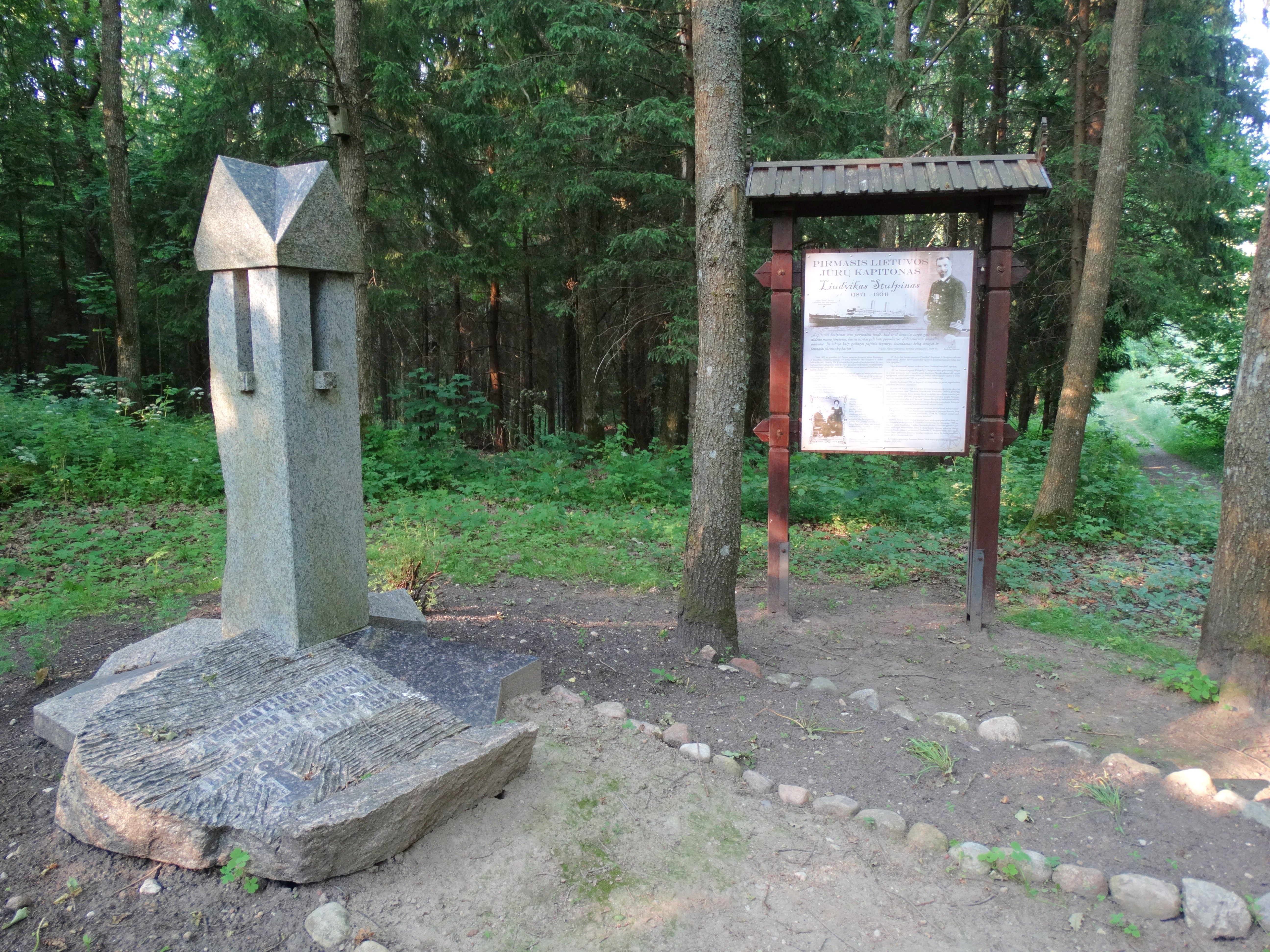 Memorial stone to Liudvikas Stulpinas, Telšiai district, Lithuania